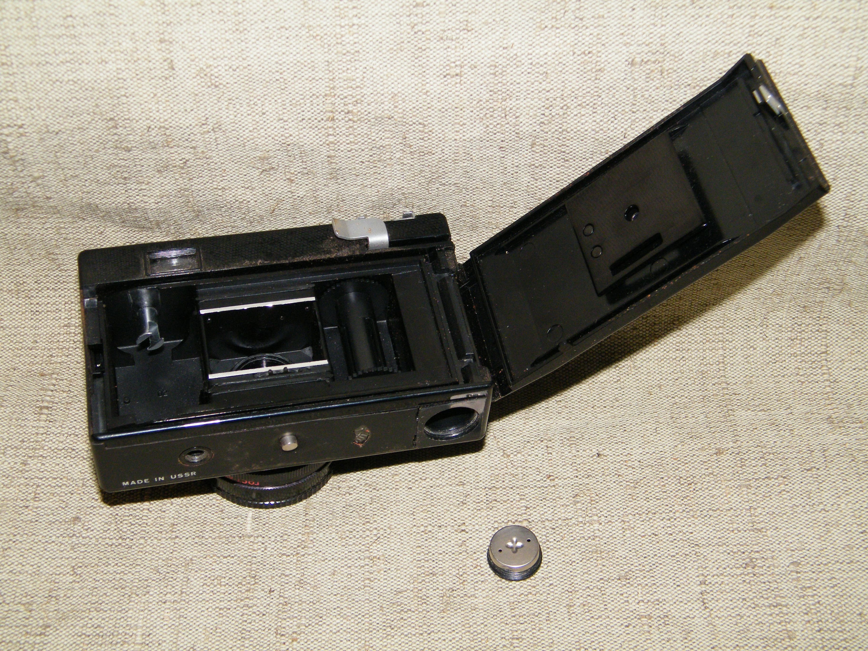 Силуэт-электро